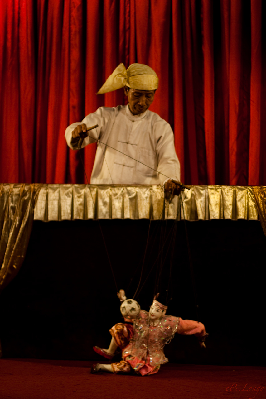 Burmese traditional puppetry